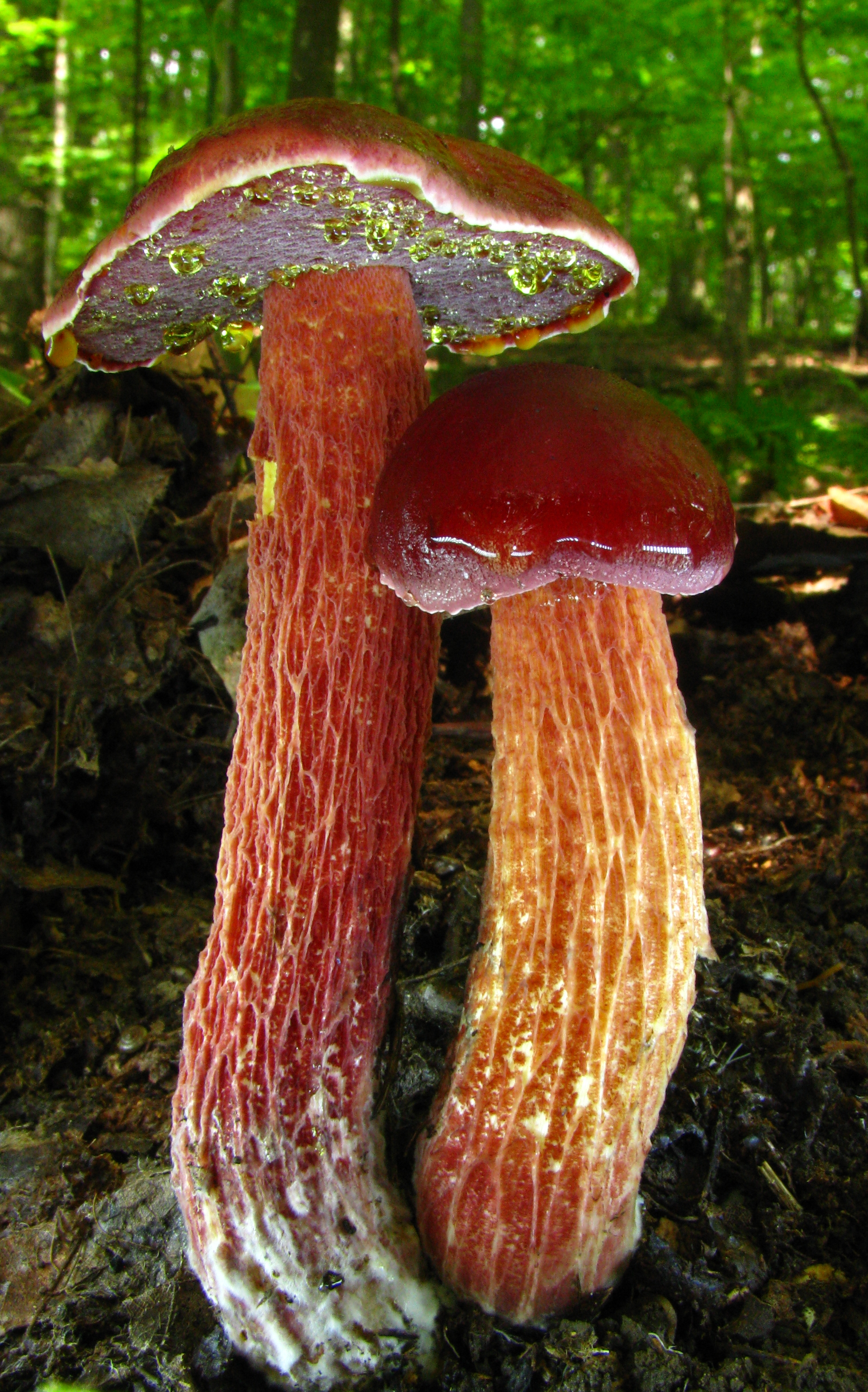 Fruit bodies of the bolete fungus Boletus frostii Russell. Specimens photographed in Babcock State Park, Fayette Co., West Virginia, USA.